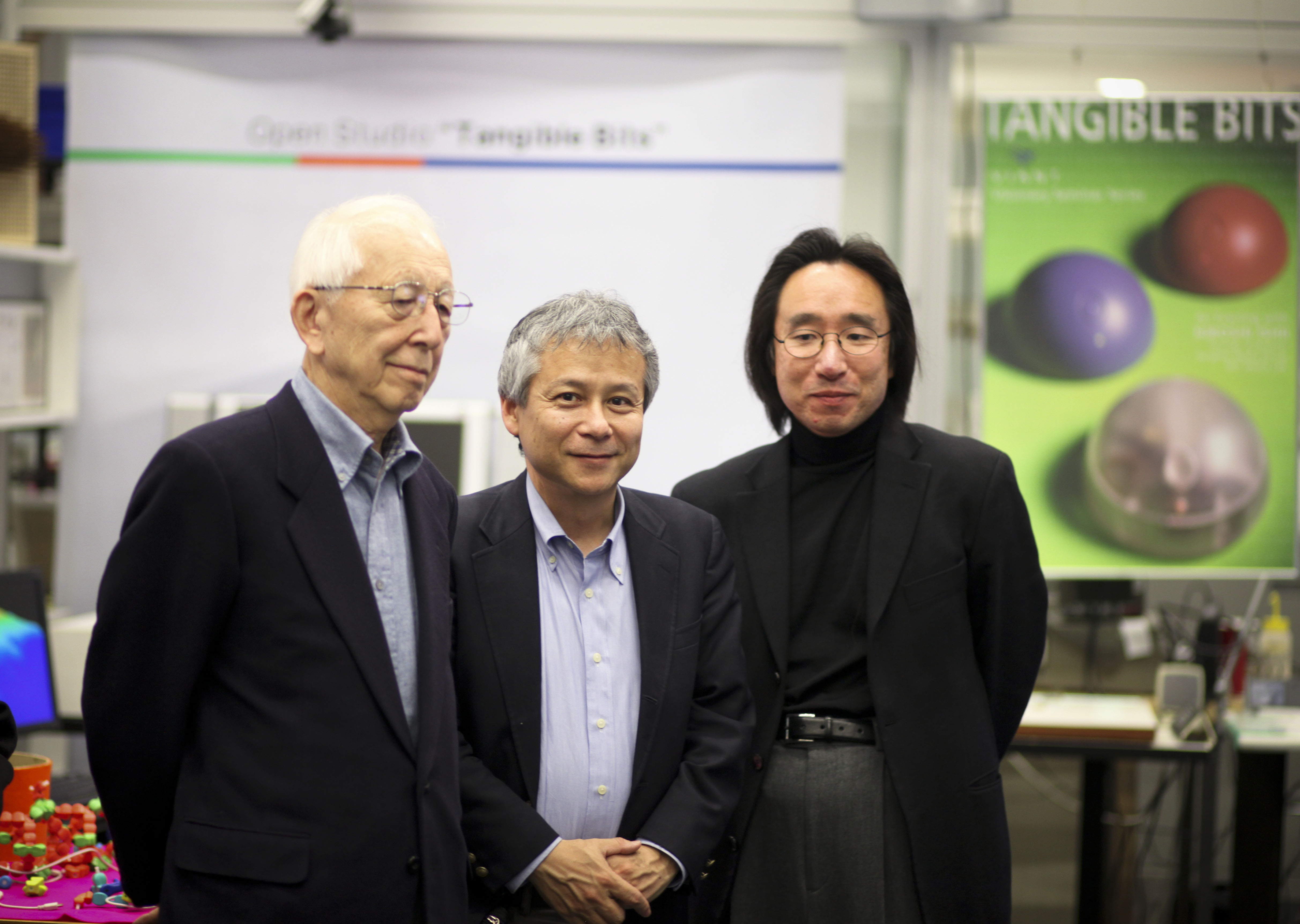 Fumihiko Maki, Principal of the Maki and Associates, and Gary Kamemoto, Director of the Maki and Associates, met Hiroshi Ishii, Professor of the Massachusetts Institute of Technology, at the Media Lab, Massachusetts Institute of Technology in Cambridge City, Massachusetts Commonwealth on March 3, 2010.